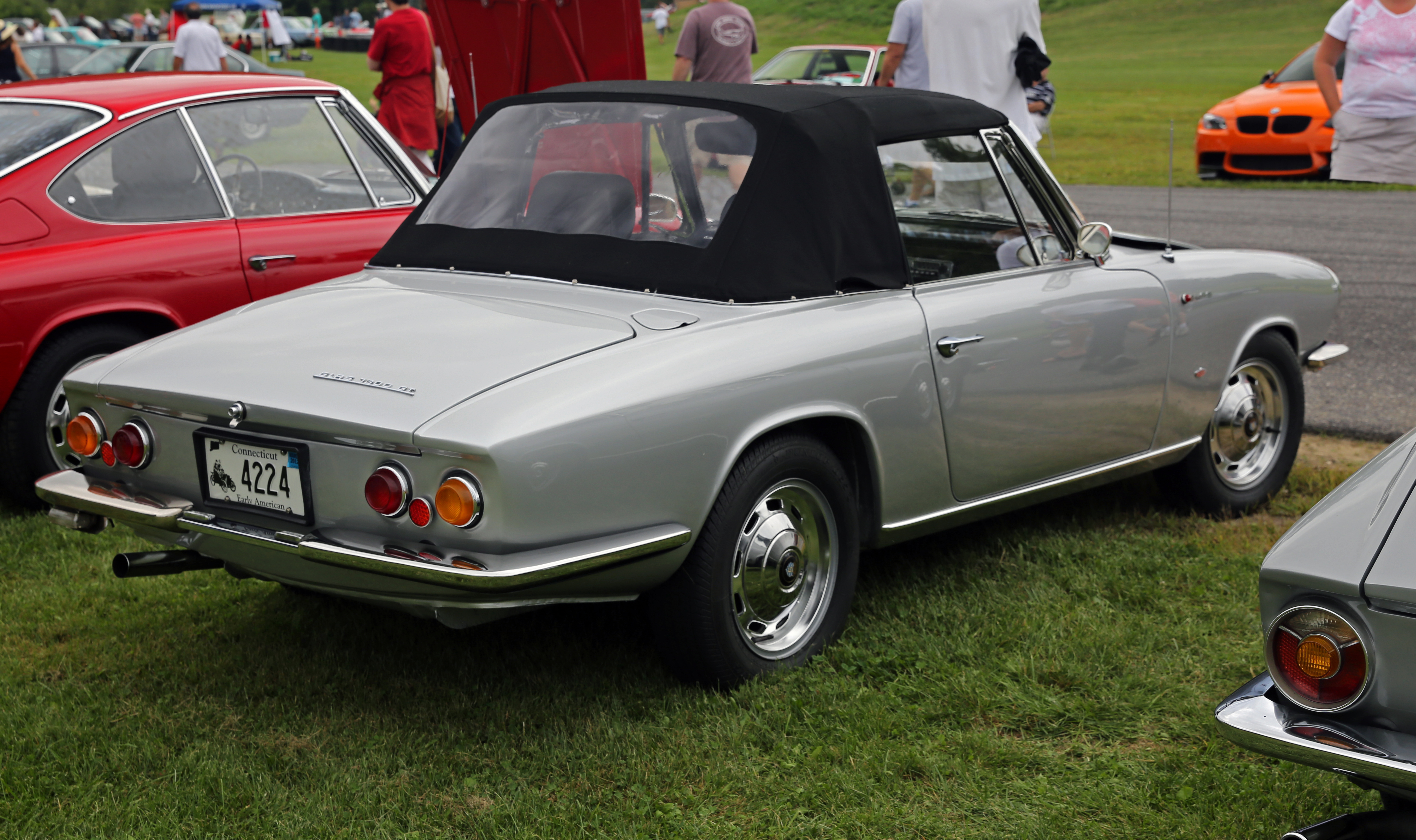 Rear right hand view of a 1966 Glas 1300 GT Cabriolet seen at the 2014 Lime Rock Gathering of the Marques attached to the Concours d'Élegance. In the foreground can be seen the taillight of a BMW 1600 GT, a later version of the same car, and behind is the bigger-engined 1700 GT Coupé. The plates are altered.